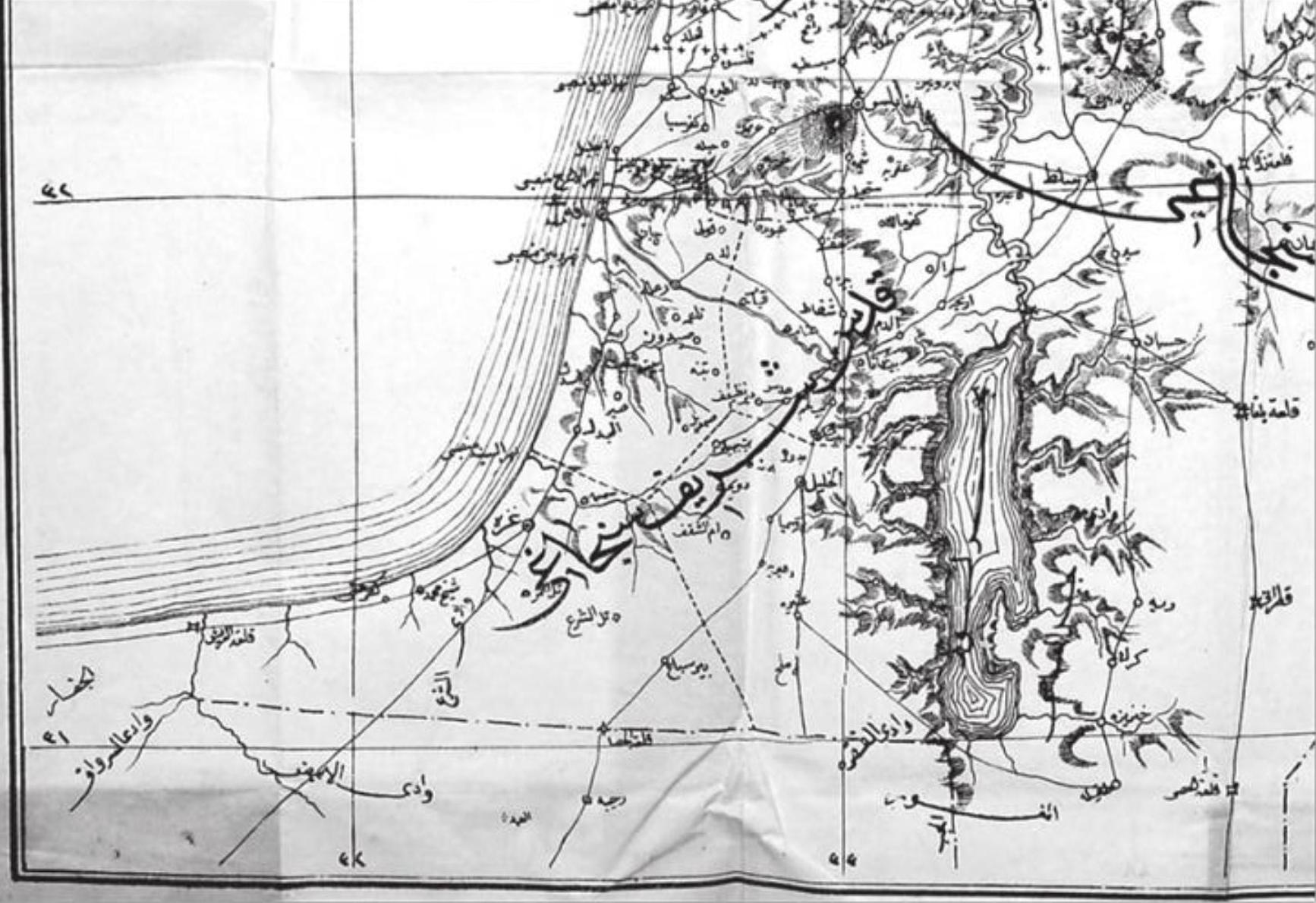 An Ottoman map of the Mutasarrifate of Jerusalem, from 1882-83 (1300 AH), from the Sâlnâme-yi vilâyet-i Sûriye 1300 AH. From the Hathi Trust (